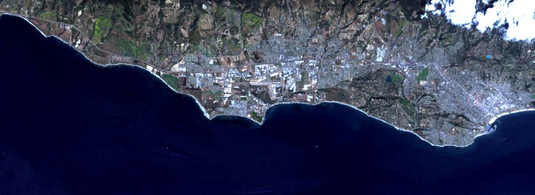 Santa Barbara, California-satellite photo, centered on the airport; the city is located at the extreme right Obtained from